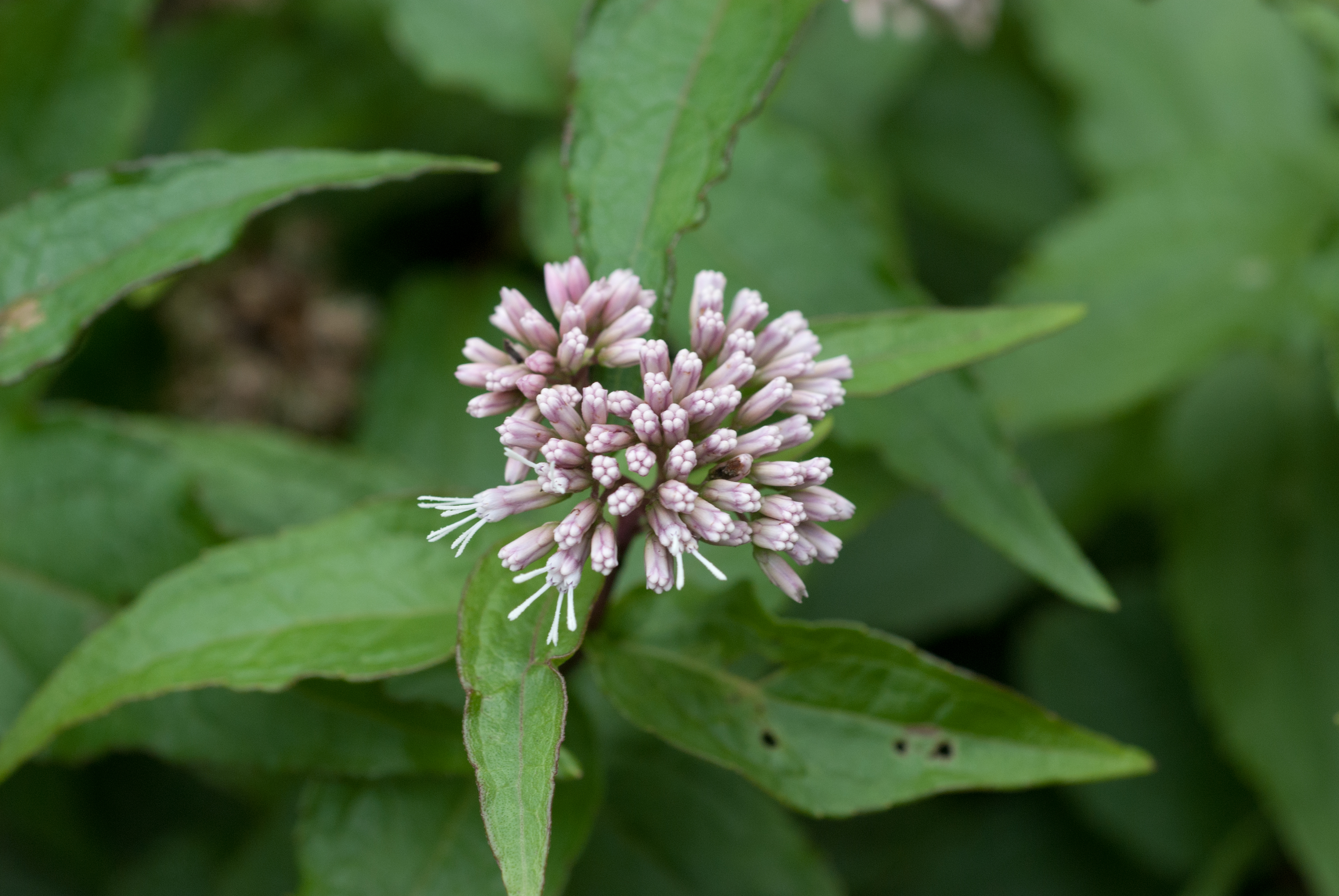 Eupatorium kiirunense.